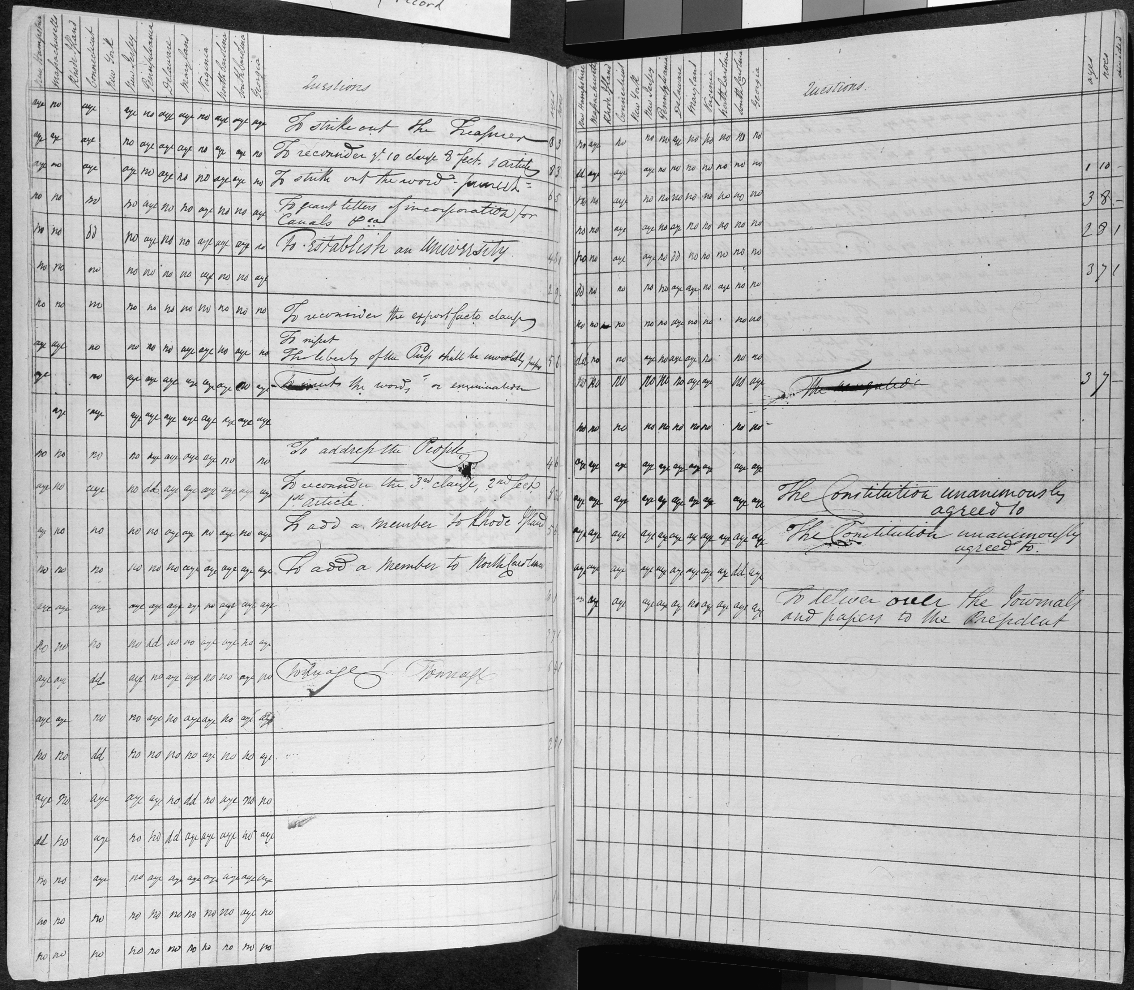 Scope and content: For four months the delegates debated fundamental questions relating to government, power, and human nature. Each and every clause of the Constitution was painstakingly argued and resolved. The voting record reflects the countless diplomacies, concessions, and comprises that produced the Constitution. This page records the final vote taken September 15, 1787. Delegates to the Convention signed the proposed Constitution on September 17, 1787. William Jackson, who served as Secretary of the Convention, recorded the votes. Throughout the entire voting record, the column for Rhode Island is blank or blacked out, since that state chose not to participate in the Convention. The column for New York is blank only for the later stages of the Convention, as two of the three delegates from that state departed early.The voting record of the convention is in two bound volumes. General notes: Exhibit History: The exhibit history that follows is a composite for both volumes. "American Originals," December 1997 - December 1998, National Archives Rotunda, Exhibit no. 624.0192. "This Fierce Spirit of Liberty," June 1989 - December 1991, National Archives Rotunda, Washington, DC. "Washington Salutes Washington," February 1989 - August 1989, Museum of Science and History, Seattle, WA, Exhibit No. 1069.0002. "Creating the Constitution," October 1986 - March 1989, Exhibit No. 547.xxxx "The American Solution." May 1987 - September 1987, Library of Congress, Washington, DC, Exhibit No. 1032.0001. "Formation of the Union," National Archives Rotunda, January 1983 - September 1986.